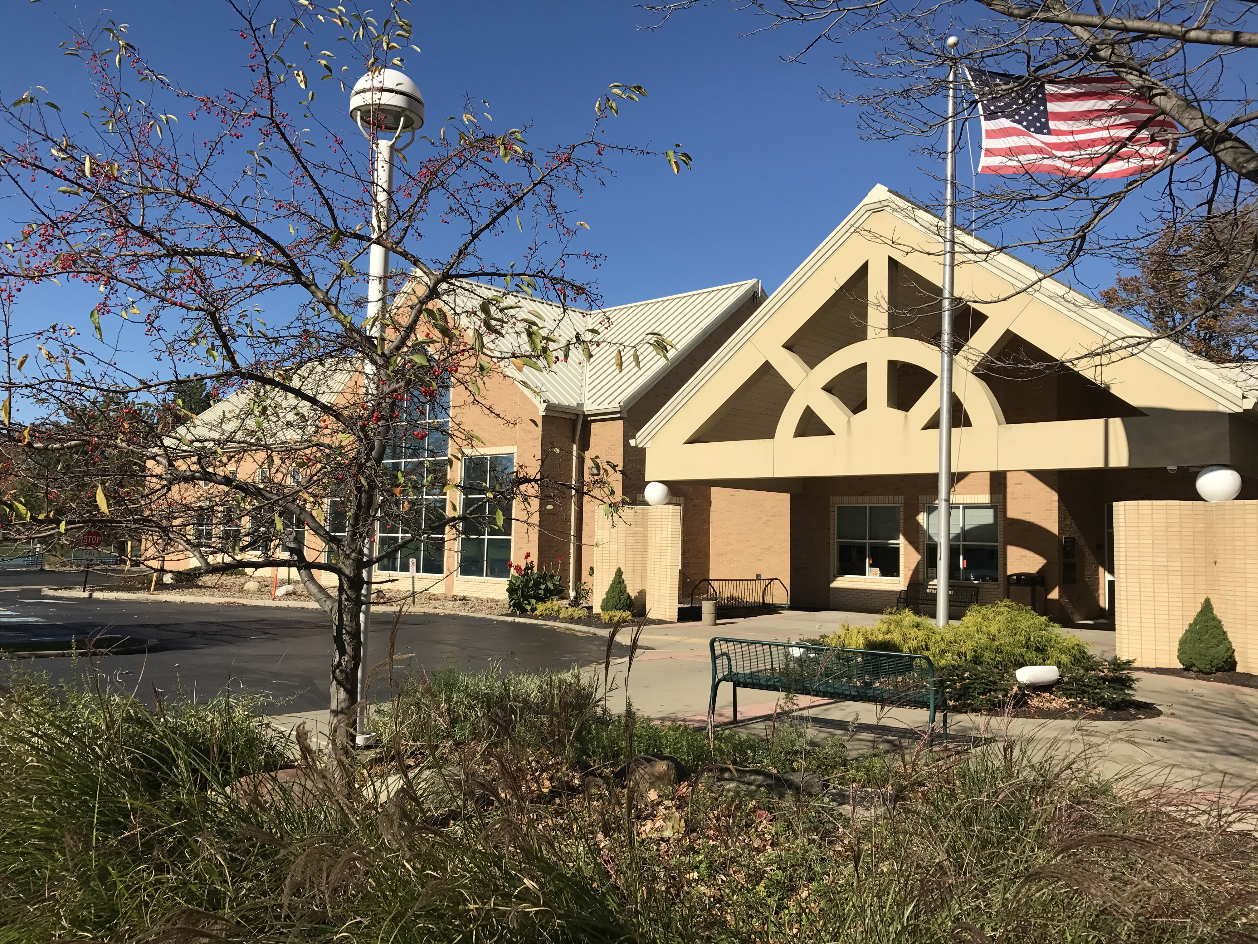 This exterior view of Avon Lake Public Library was taken November 13, 2016.